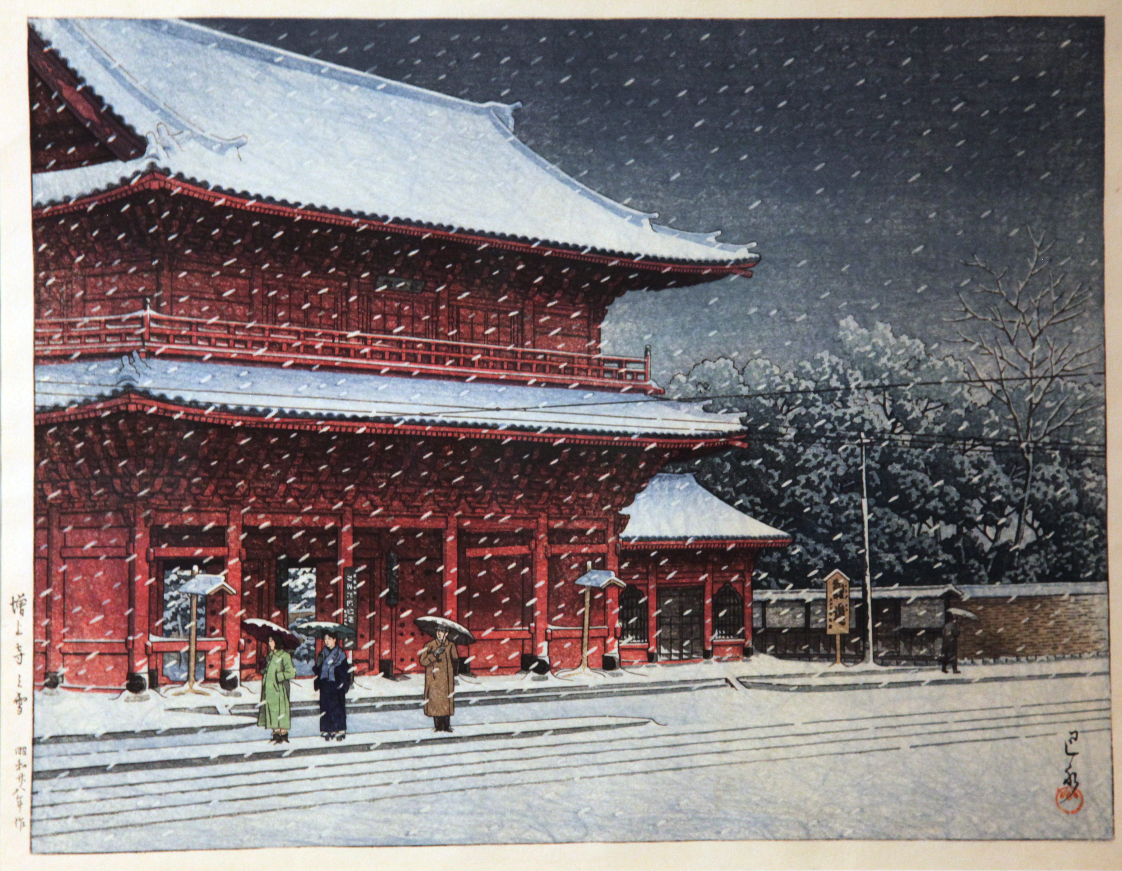 Snow over Zojoji Temple (Shiba, Tokyo). Commissioned by the Japanese Ministry of Culture to celebrate xyloengraving, then designated as "intengible cultural treasure" (Mukei Bunkazai) Published by Watanabe Shozaburo, signed "Hasui", seal "Kawase", engraver Sato Jurokichi, printer Ono Gintaro; paper, shin-hanga polychrome xyloengraving, oban formatPurchased in 2015, MA 12710